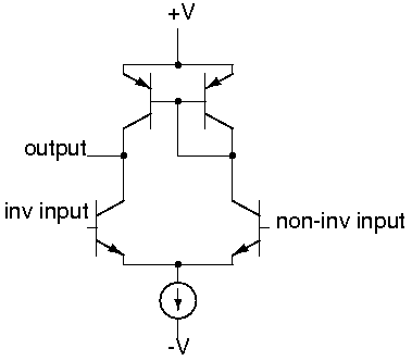 A long-tailed-pair (LTP) differential input stage with current-mirror load and constant-current drive used in discrete VFB amplifiers.